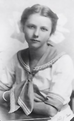 Upscaled and denoised version of File:Ruth Becker.jpg